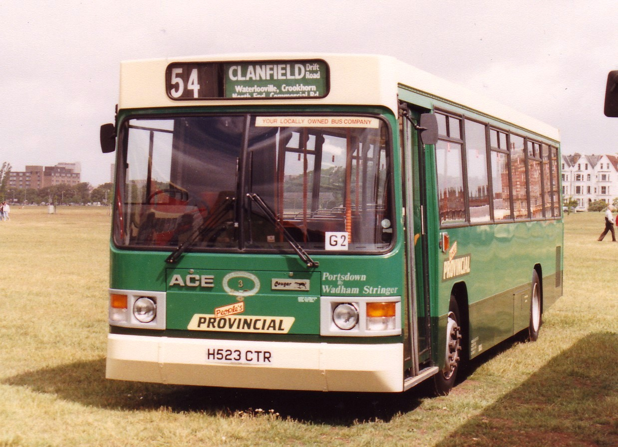 People's Provincial 3, an ACE Cougar with Wadham Stringer bodywork, at the Southsea Bus Rally in June 1991. It is one of just two Cougars built and is now in preservation.